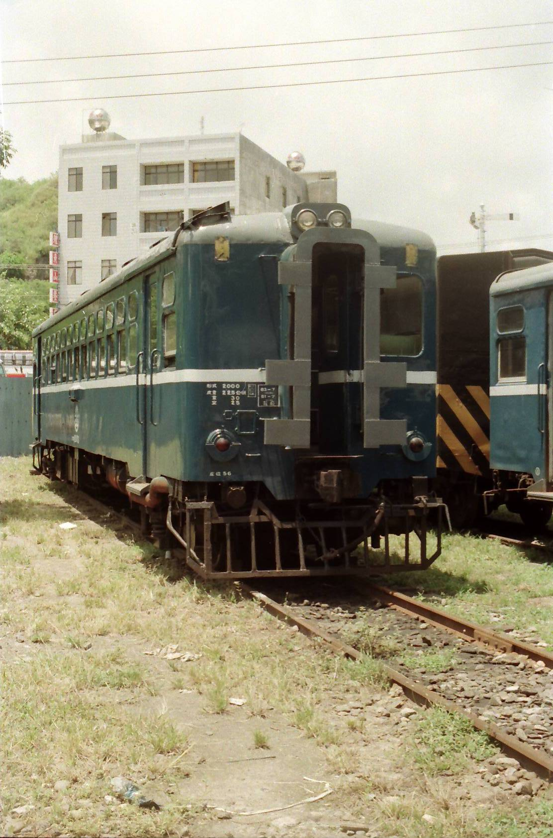 DMU type DR2000 of Taiwan Railway Administration. ex-LDR2300 while it was used for 762mm gauge Taitung Line railway.